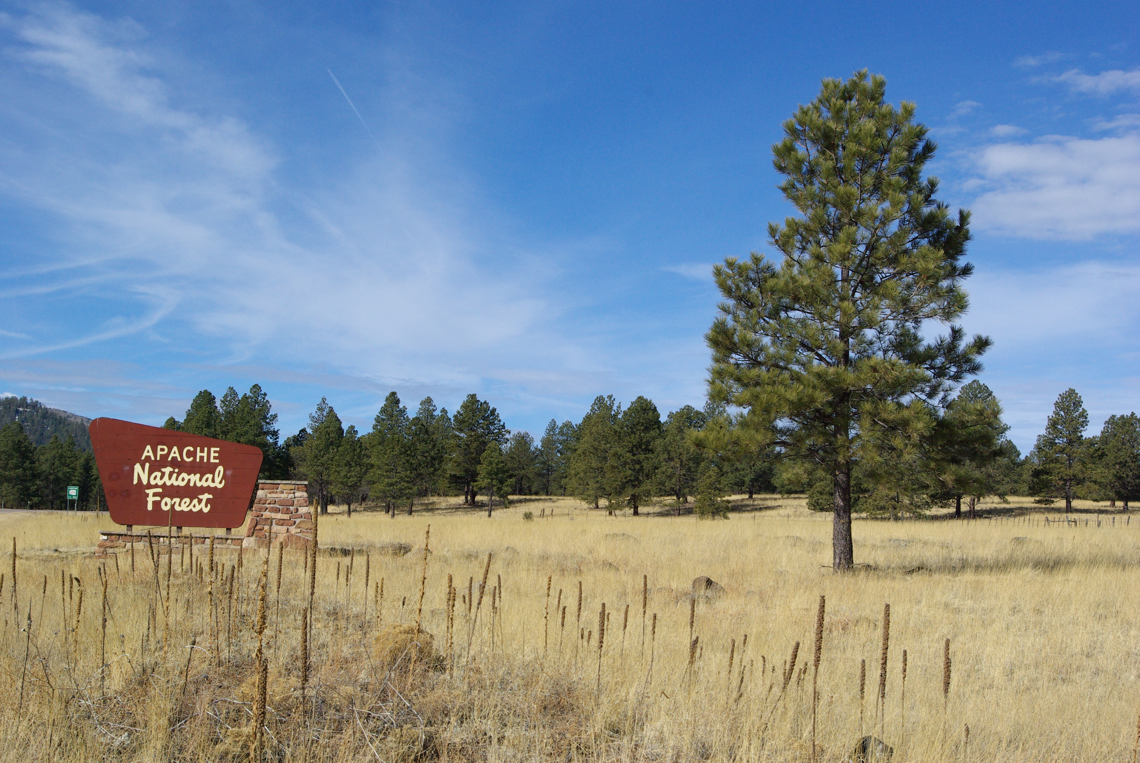 The eastern entrance sign of Apache National Forest